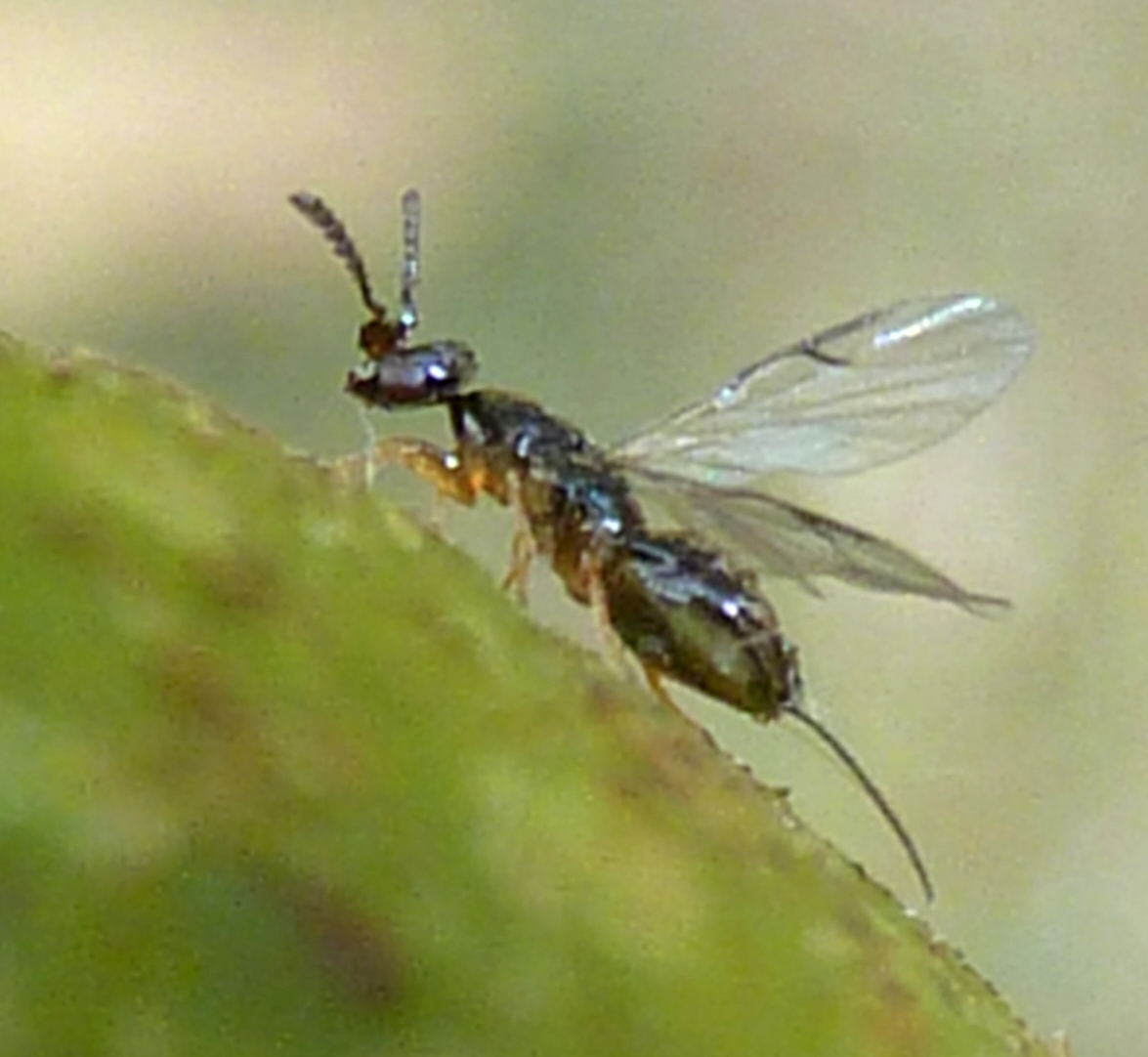 Ceratosolen capensis on Ficus sur in Jan Celliers Park, Pretoria